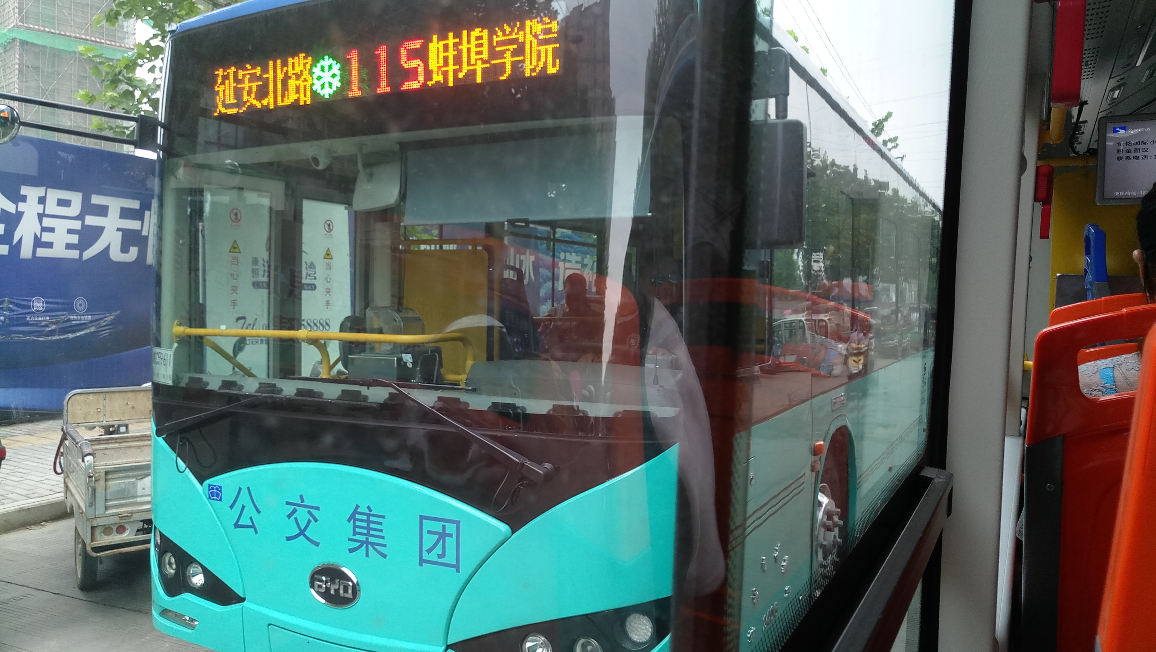 Bengbu Bus No.115 with BYD Electric Bus I